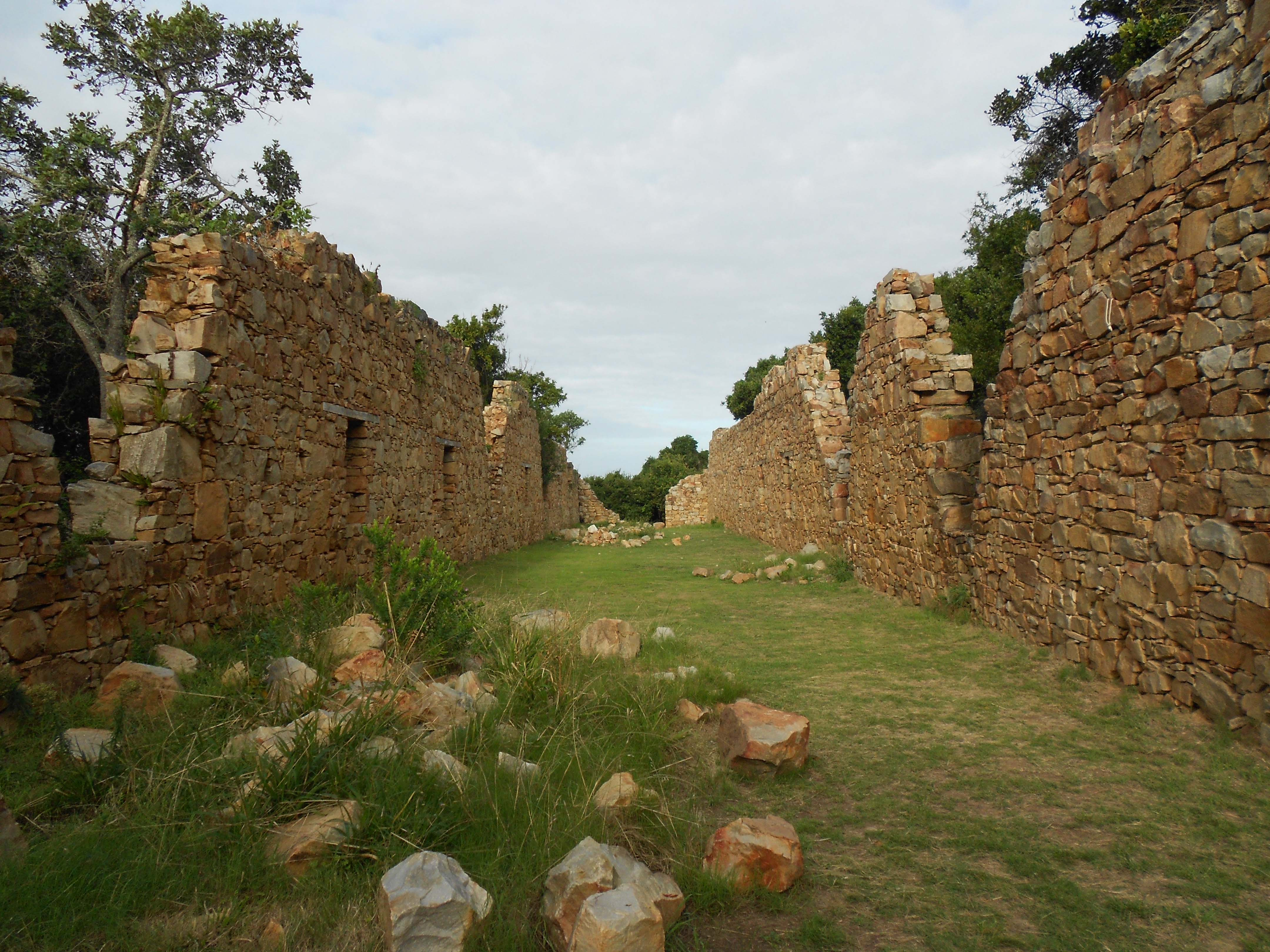 The Plettenberg Bay area was rich in natural forests. Baron Joachim van Plettenberg was worried about these forests and suggested that a control post must be erected to prevent the over-use of the timber. The Dutch East India Company started a woodcutter’s post in 1778. JF Meeding was appointed the first overseer of this post. In 1786 Johann Jacob Jerling was contracted to build a Timber Store for storage of the timber. This media shows a South African Protected Site with SAHRA file reference 9/2/052/0003.